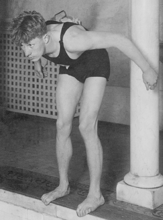 1926 Chicago AAU Swimming Pentathlon Winner YMCA Walter Laufer Press Photo